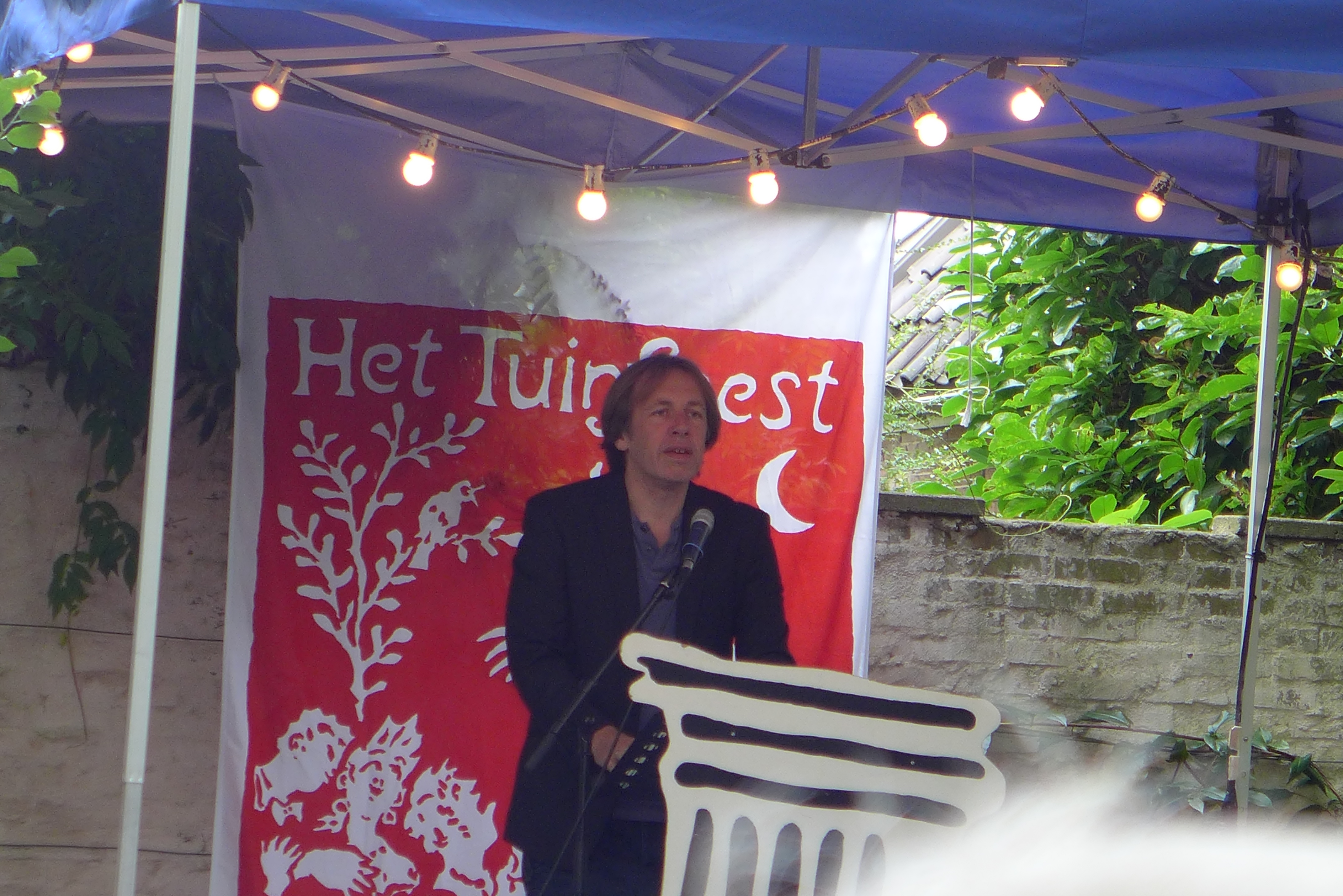 De Nederlandse dichter Ingmar Heytze tijdens zijn optreden op het poëziefestival 'Het Tuinfeest' in Deventer op 1 augustus 2015.